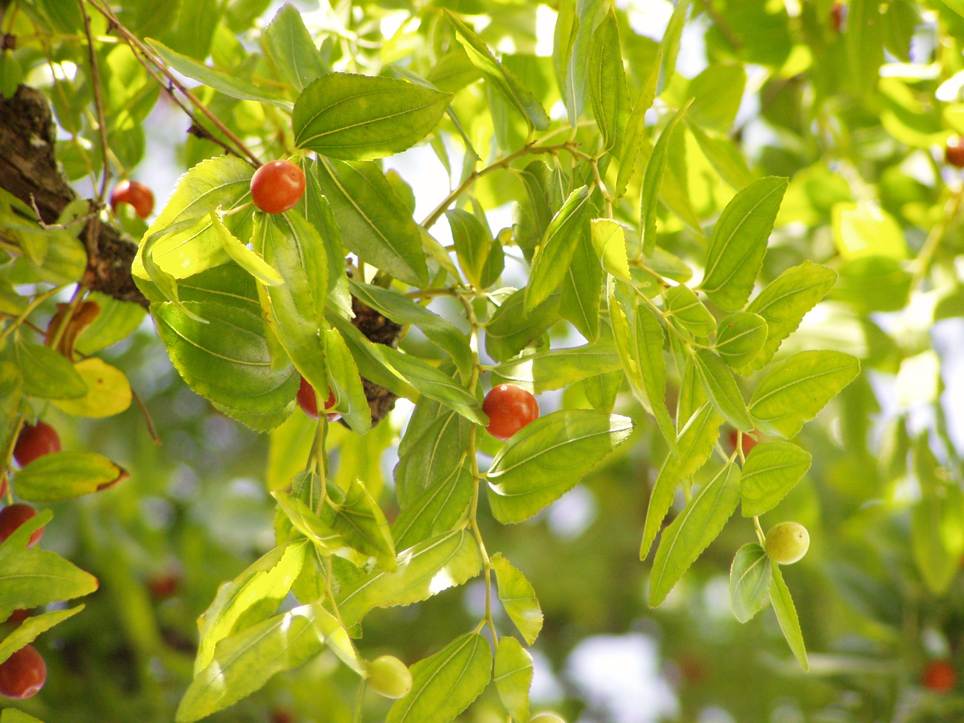 Common Jujube